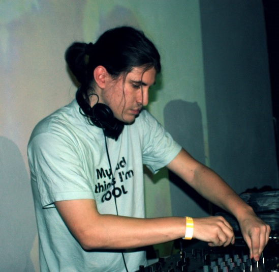 Matúš Lenický aka B-Complex.